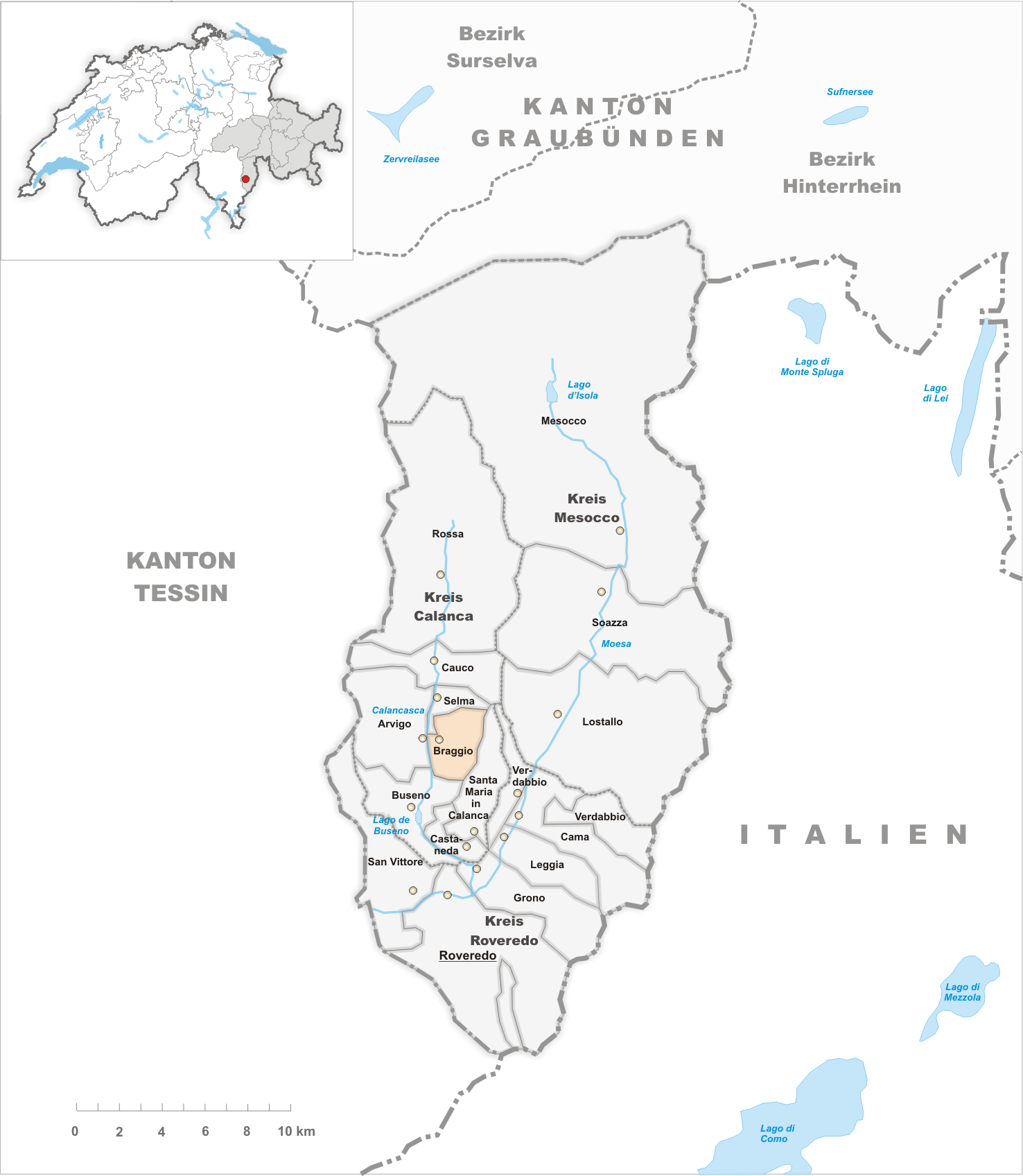 Municipality Braggio